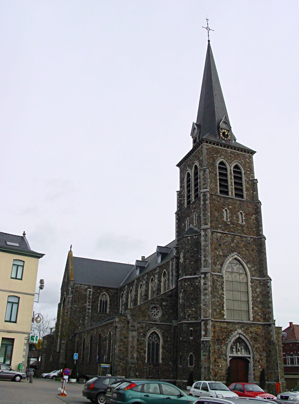 The church in Lembeek in the municipality of Halle, Belgium. Photograph taken by David Edgar on 12th November 2006.